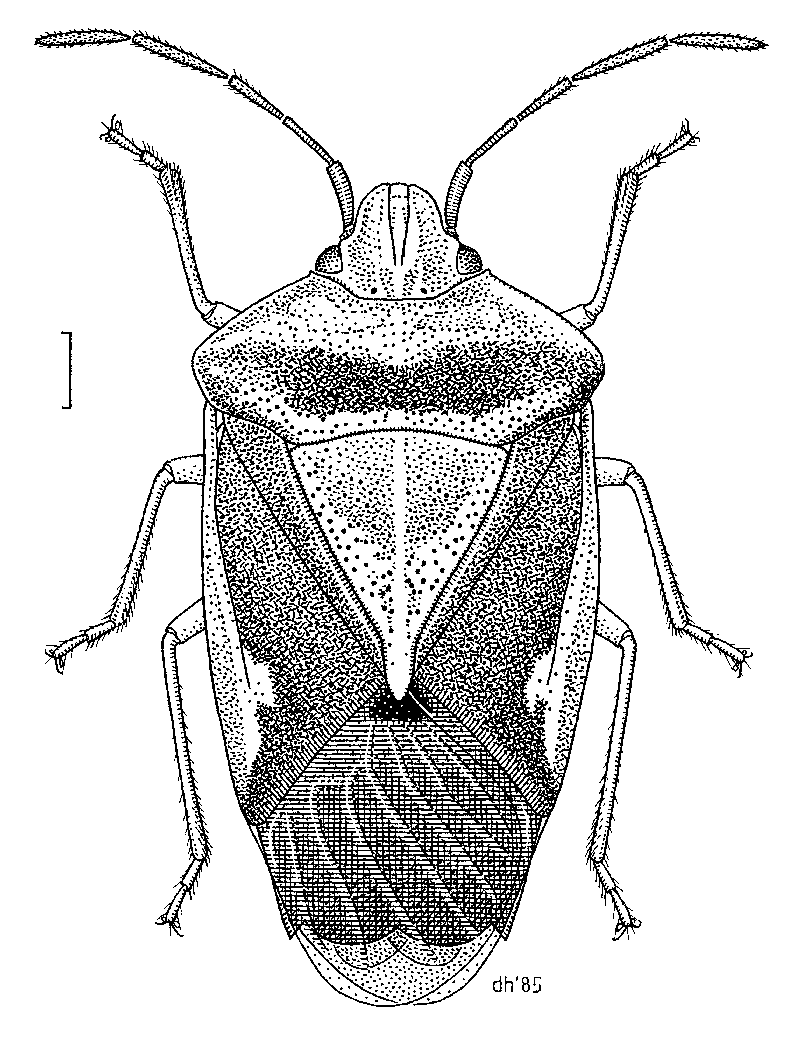 (Hemiptera: Acanthosomatidae) Oncacontias vittatus, female illustrated by Des Helmore.